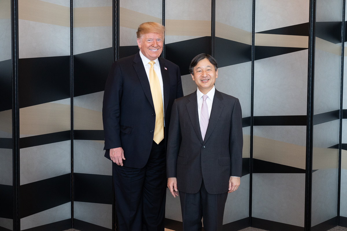 President Donald J. Trump meets with Japan’s Emperor Naruhito and Empress Masako during a farewell call Tuesday, May 28, 2019, at the Palace Hotel Tokyo. (Official White House Photos by Shealah Craighead)